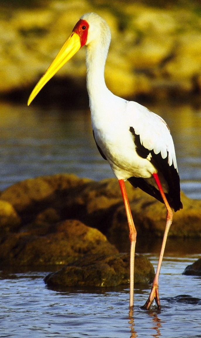 A Yellow-billed Stork on the shores of Lake Baringo, Kenya.